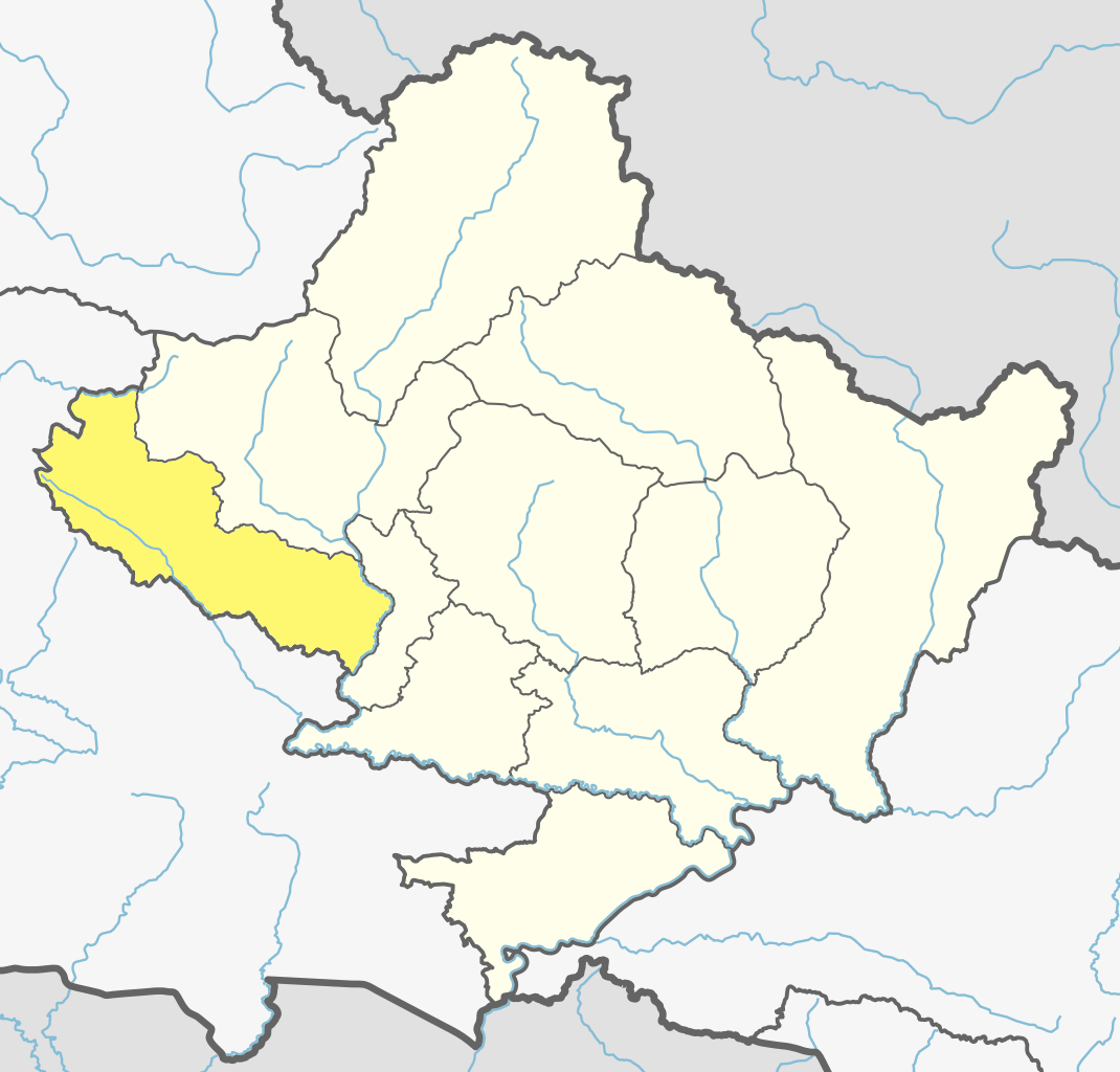 Baglung District